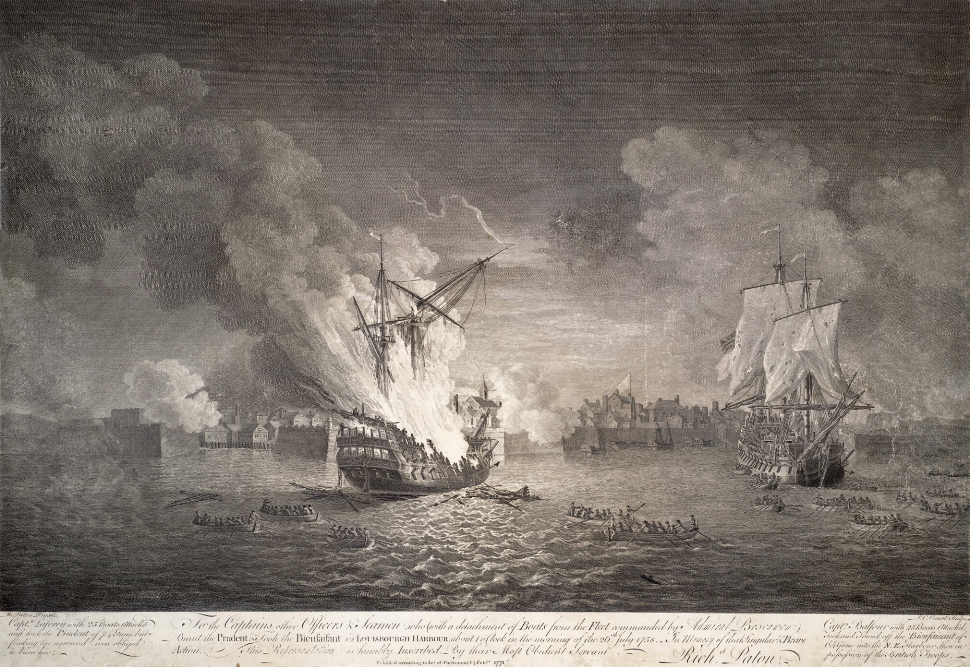 Engraving made ​​after a painting by Richard Paton. Burning of the French ship Prudent (74 guns) and capture Bienfaisant (64 guns), during the siege of Louisbourg in 1758.